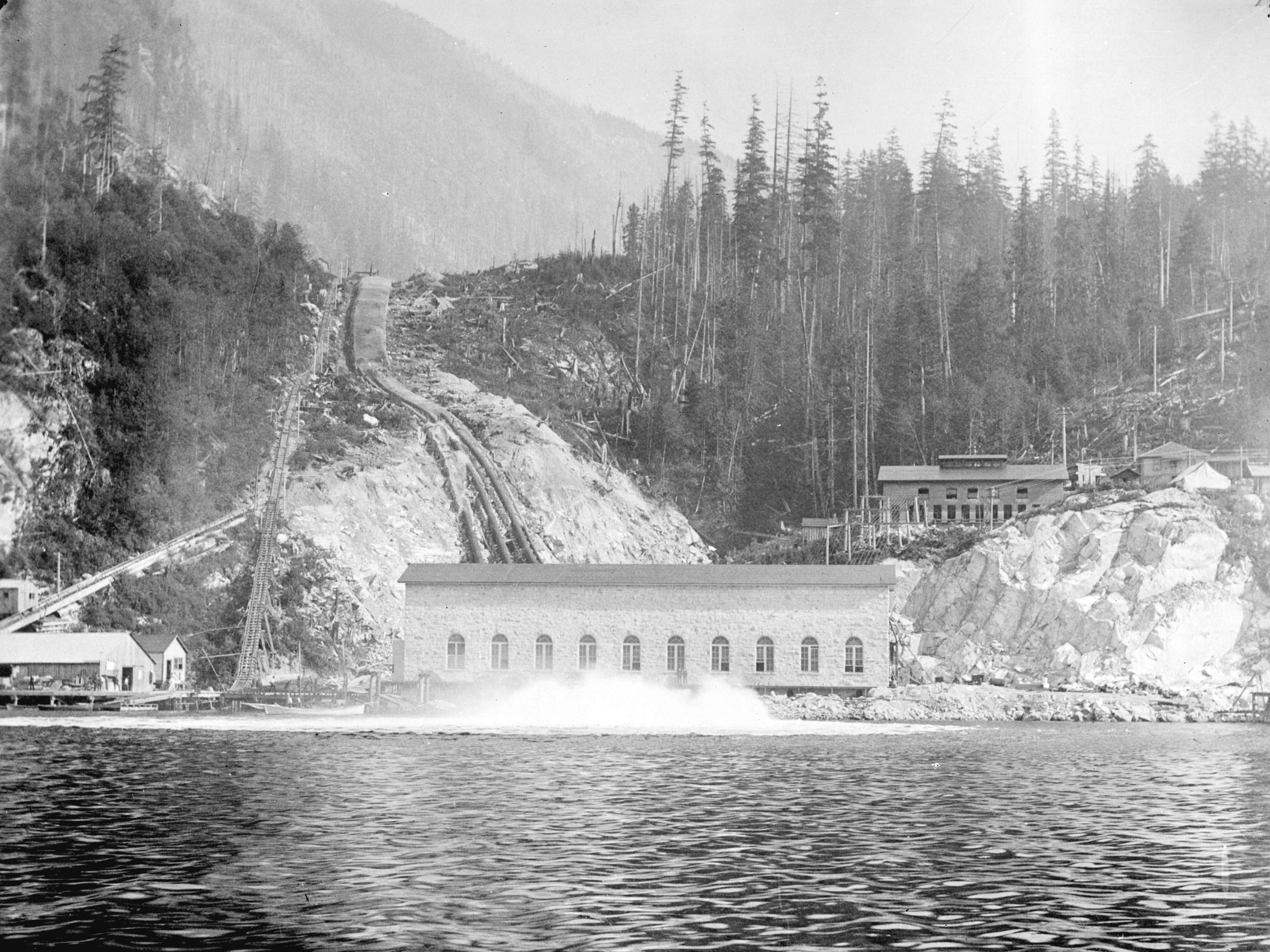 Buntzen Lake Power Plant number one